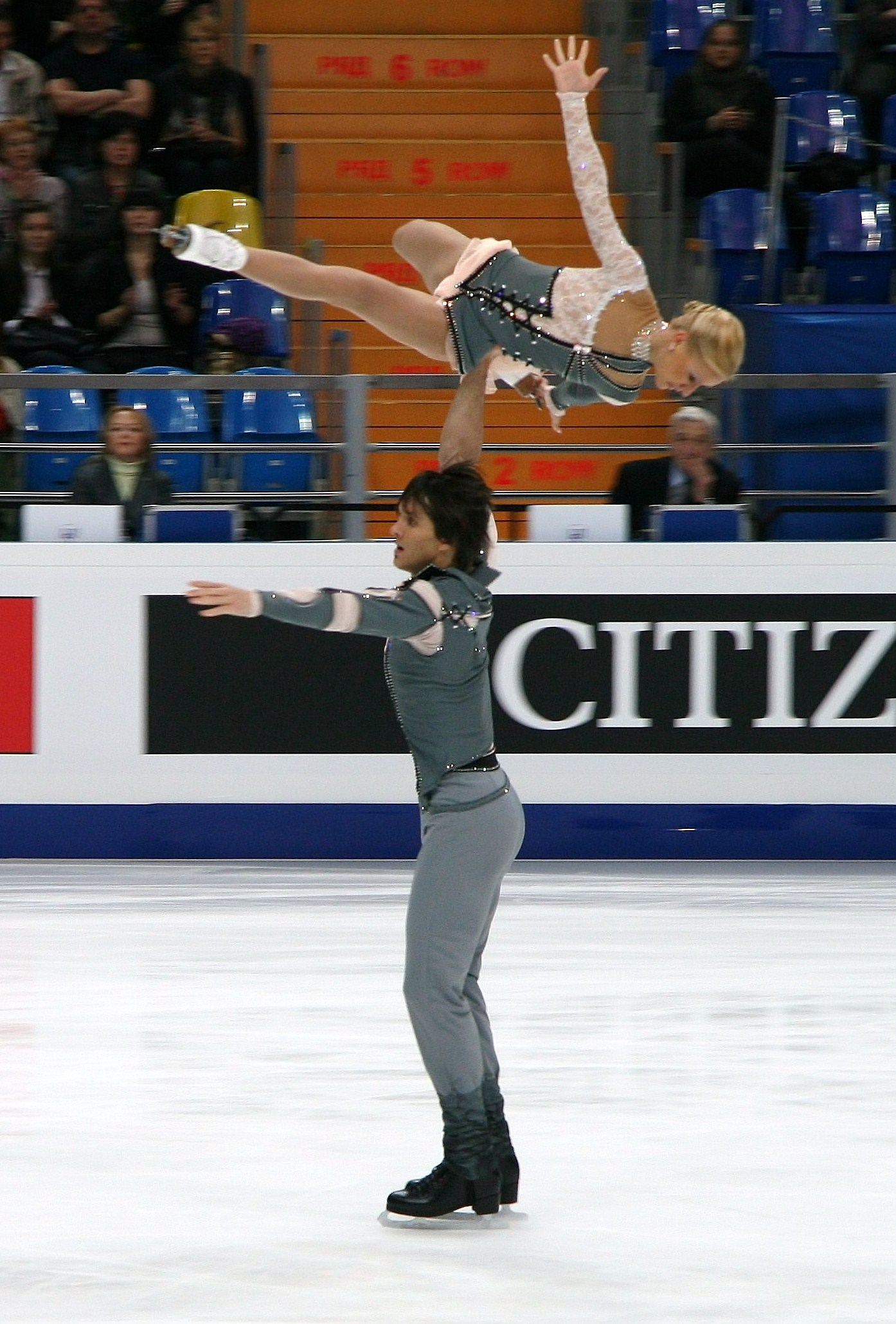 Tatiana Volosozhar and Maxim Trankov at the 2011 World Figure Skating Championships